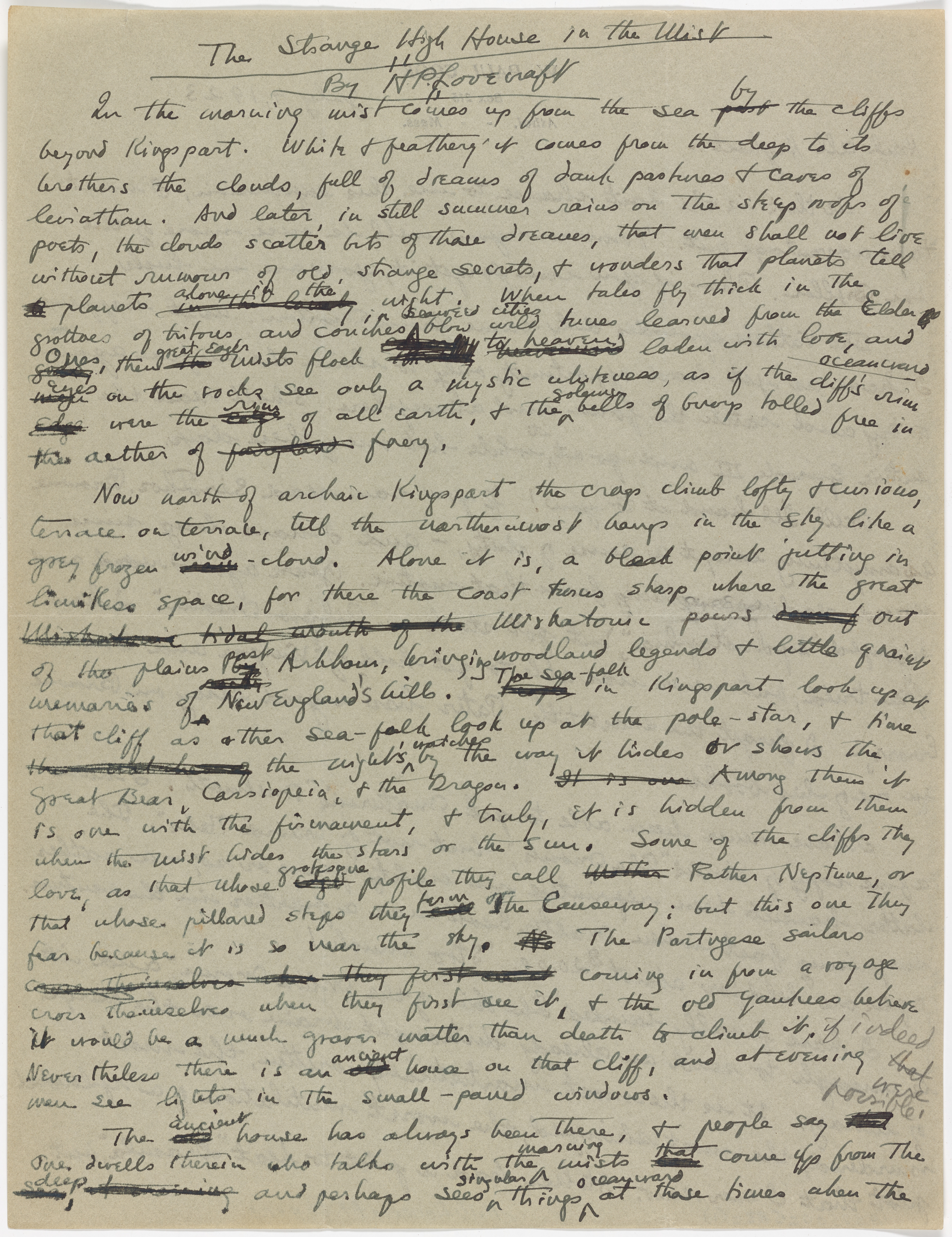 First page of the manuscript The Strange High House in the Mist.